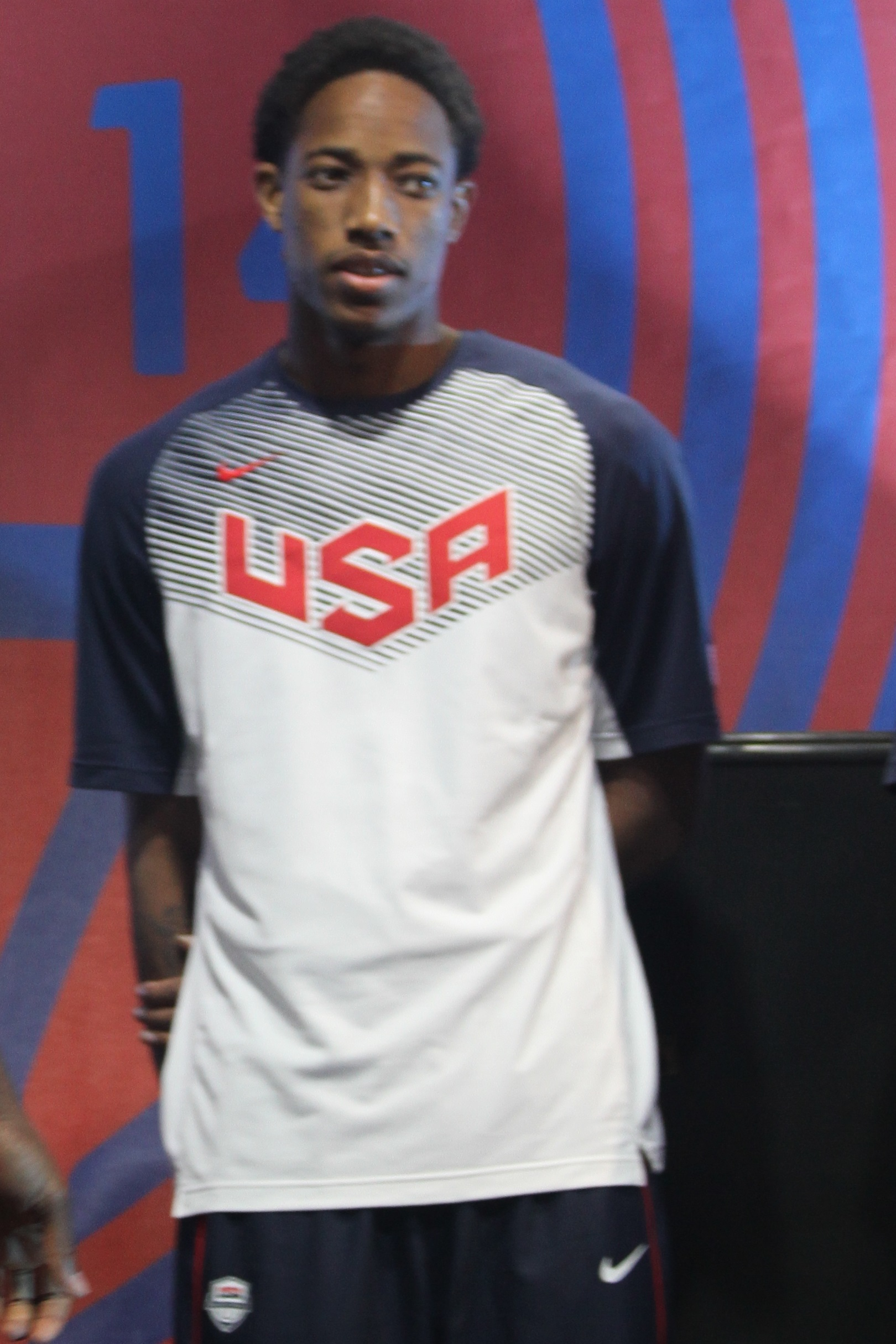 DeMar DeRozan at 2014 World Basketball Festival at 63rd Street Beach in Chicago